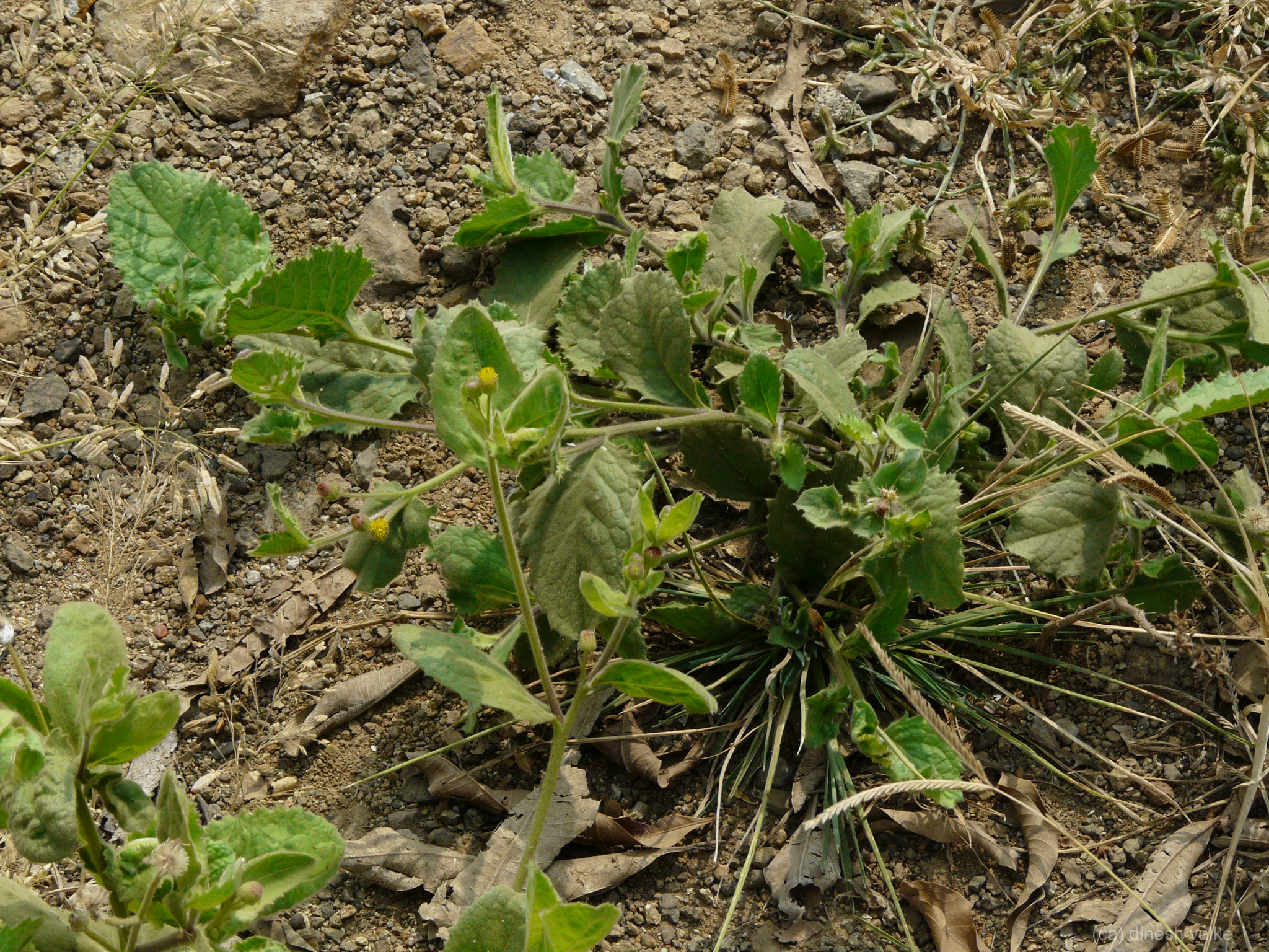 Asteraceae (aster, daisy, or sunflower family) » Blumea oxyodonta blum-EE-uh -- named after Karl Ludwig von Blume, Dutch botanist oks-ee-oh-DON-tuh -- sharp toothed commonly known as: spiny leaved blumea Distribution: Bhutan, China, India, Myanmar, Nepal, Pakistan, Philippines, Vietnam References: Flowers of India • Sahyadri Database • Floristic Survey of Institute of Science